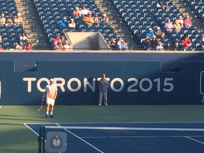 Tennis at the 2015 Pan American Games